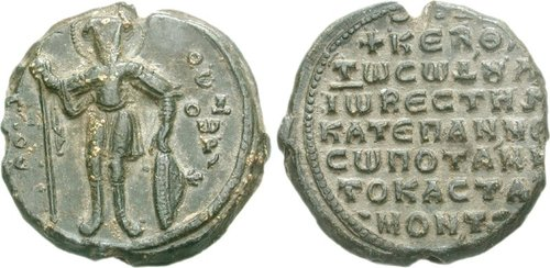 Ioannes Kastamonites. Vestes and katepano of Mesopotamia, circa 10th-12th centuries. PB Seal (26mm, 16.95 g, 12h). [...]I/[...]O/[...]C down left field; Q/E/OD/w/P/’ down right field; St. Theodore standing facing, wearing military outfit, holding spear in his right hand, left hand on shield / +KE R,Q, / Tw Cw D(OY)L/ Iw RECTHS/ KATEPAN, ME/CwPOTAMI/ TO KACTA/- MON, T, - in seven lines; [ornamentation above]. BLS I -; DOCBS -; Seyrig -; Vatican -; Orghidan -; Jordanov -. Good VF.